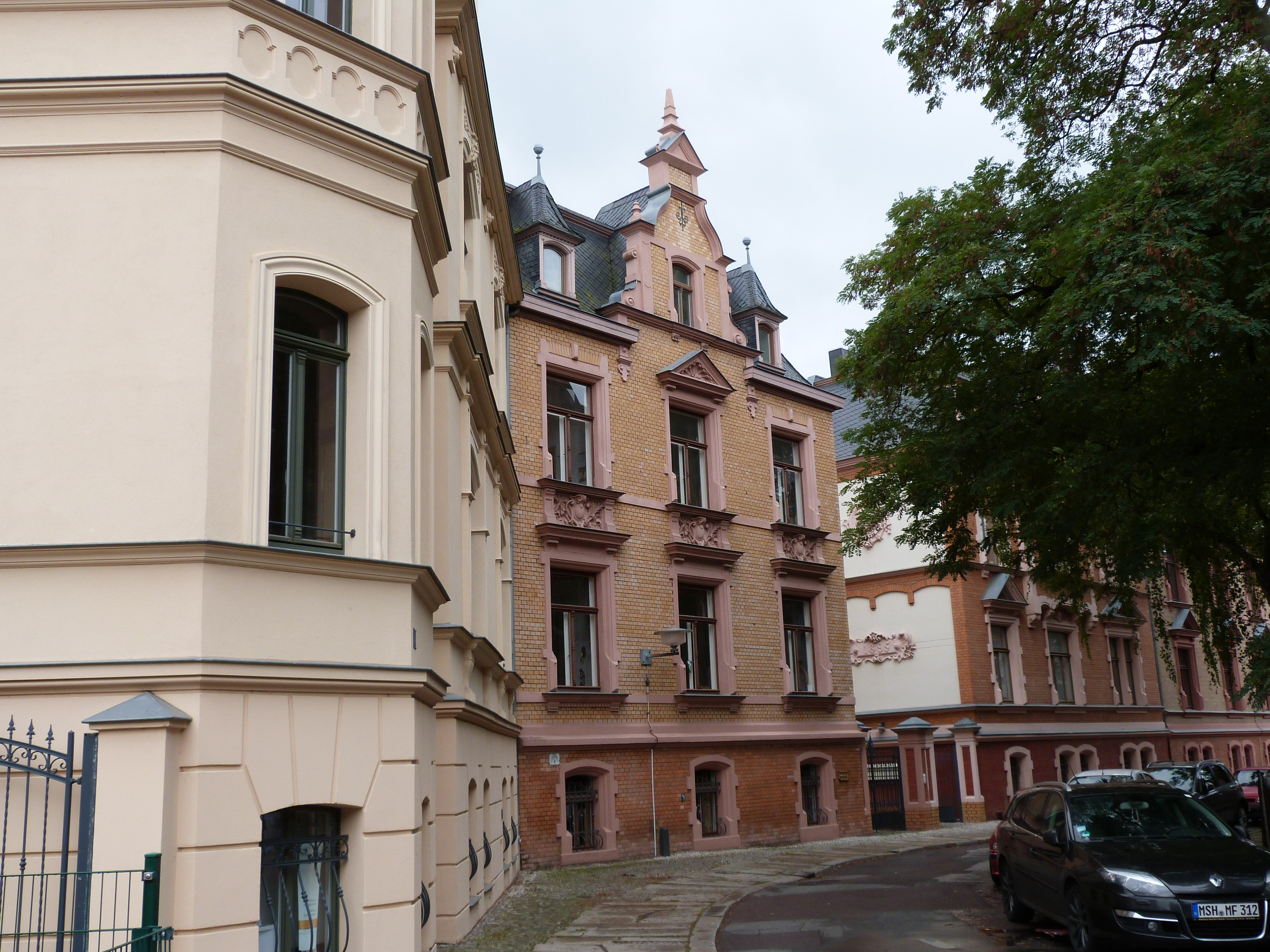 Stephanusstrasse in Halle (Saale), Saxony-Anhalt